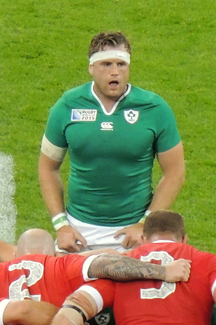 Irish rugby union player Jamie Heaslip playing in 2015 Rugby World Cup game Ireland vs Canada at Millennium Stadium in Cardiff.